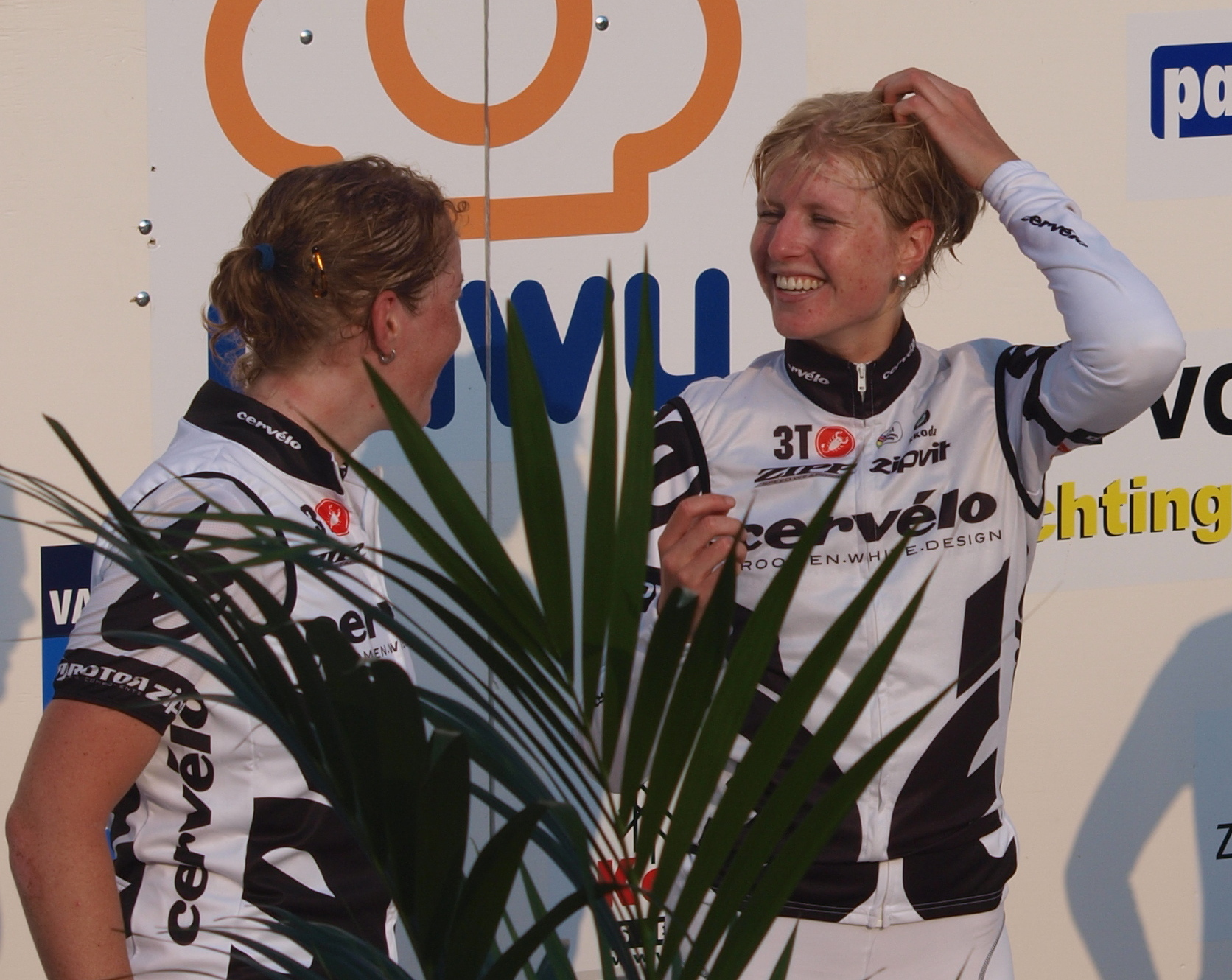 Podium of the 2009 Netherlands national time trial championships. 1. Regina Bruins, 2. Kirsten Wild, 3. Ellen van Dijk